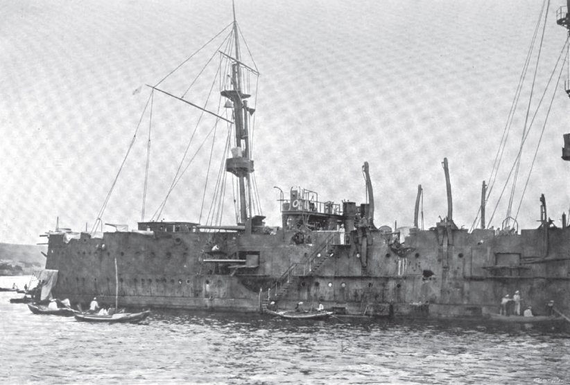 The right side damage of the Russian armored cruiser Gromoboi after the Battle of Ulsan